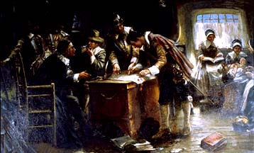 “Photograph of a painting by Edward Percy Moran (1862-1935), showing Myles Standish, William Bradford, William Brewster and John Carver signing the Mayflower Compact in a cabin aboard the Mayflower while other Pilgrims look on.” ca.1900. The original hangs at the Pilgrim Hall Museum in Plymouth, MA.